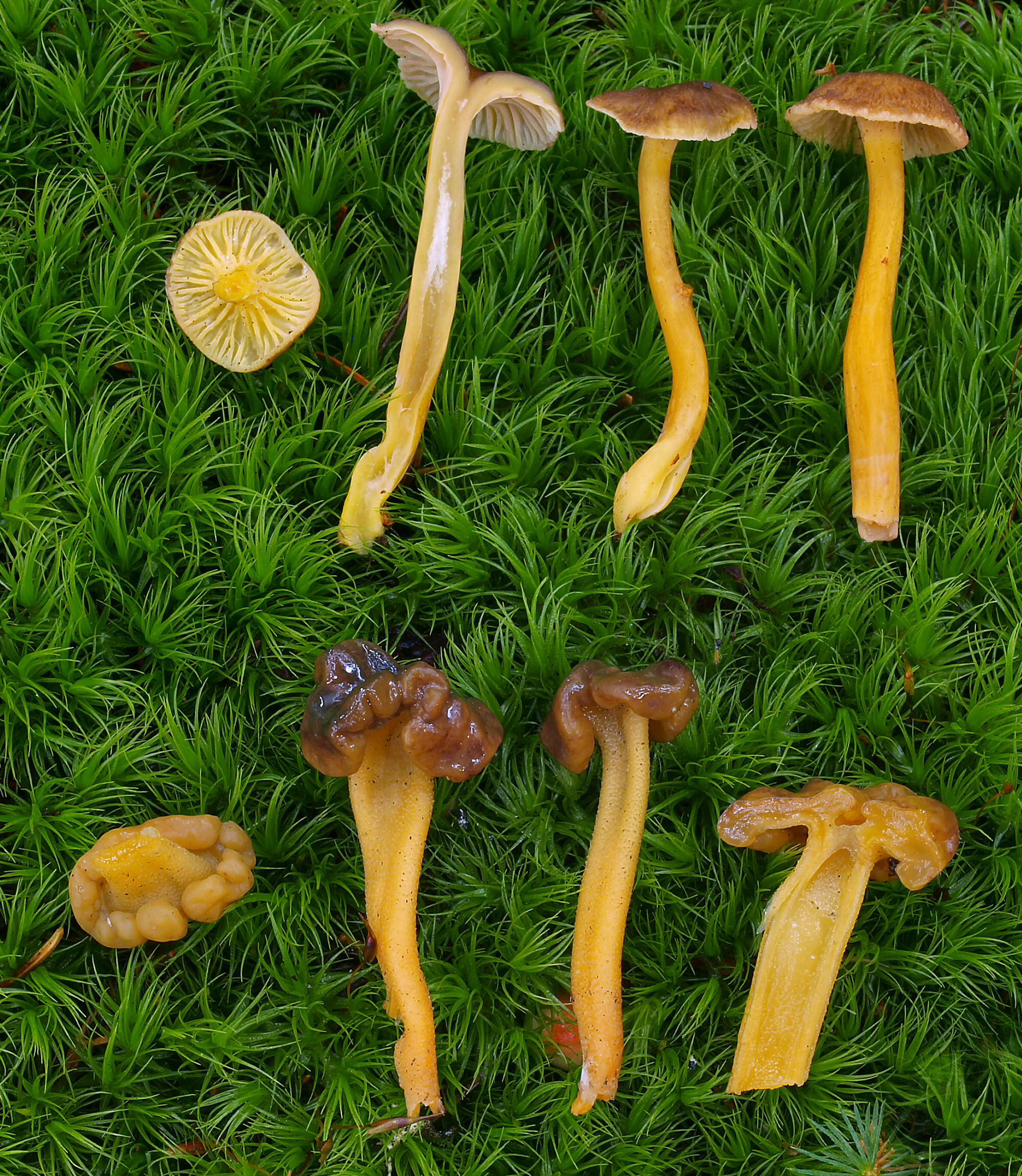 Fruitbodies in comparison: above Trumpet Chanterelle (Craterellus tubaeformis) and below Jellybaby (Leotia lubrica)